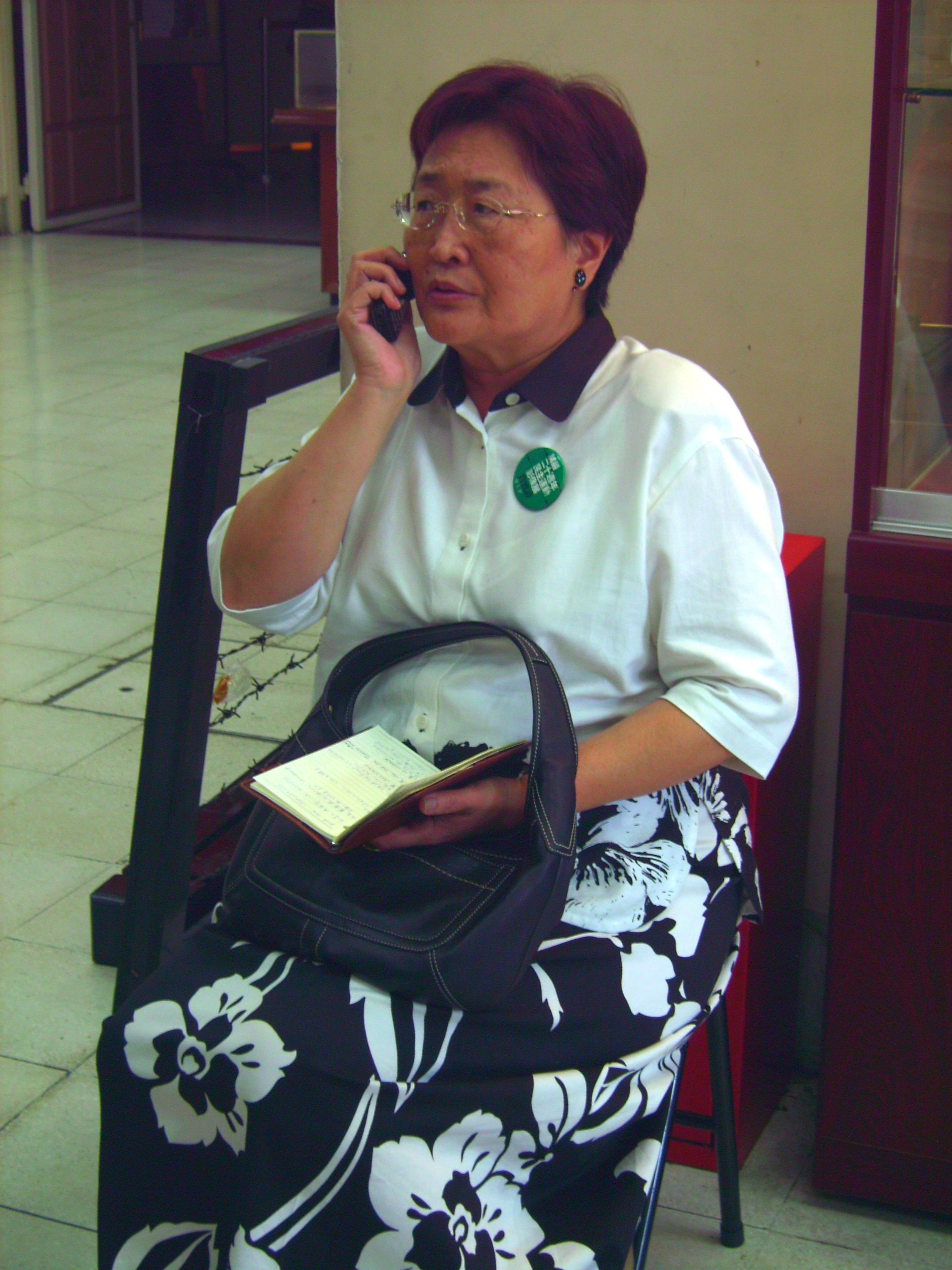 Ching-yu Chou, wife of current President of Examination Yuan of R.O.C. Chia-wen Yao.